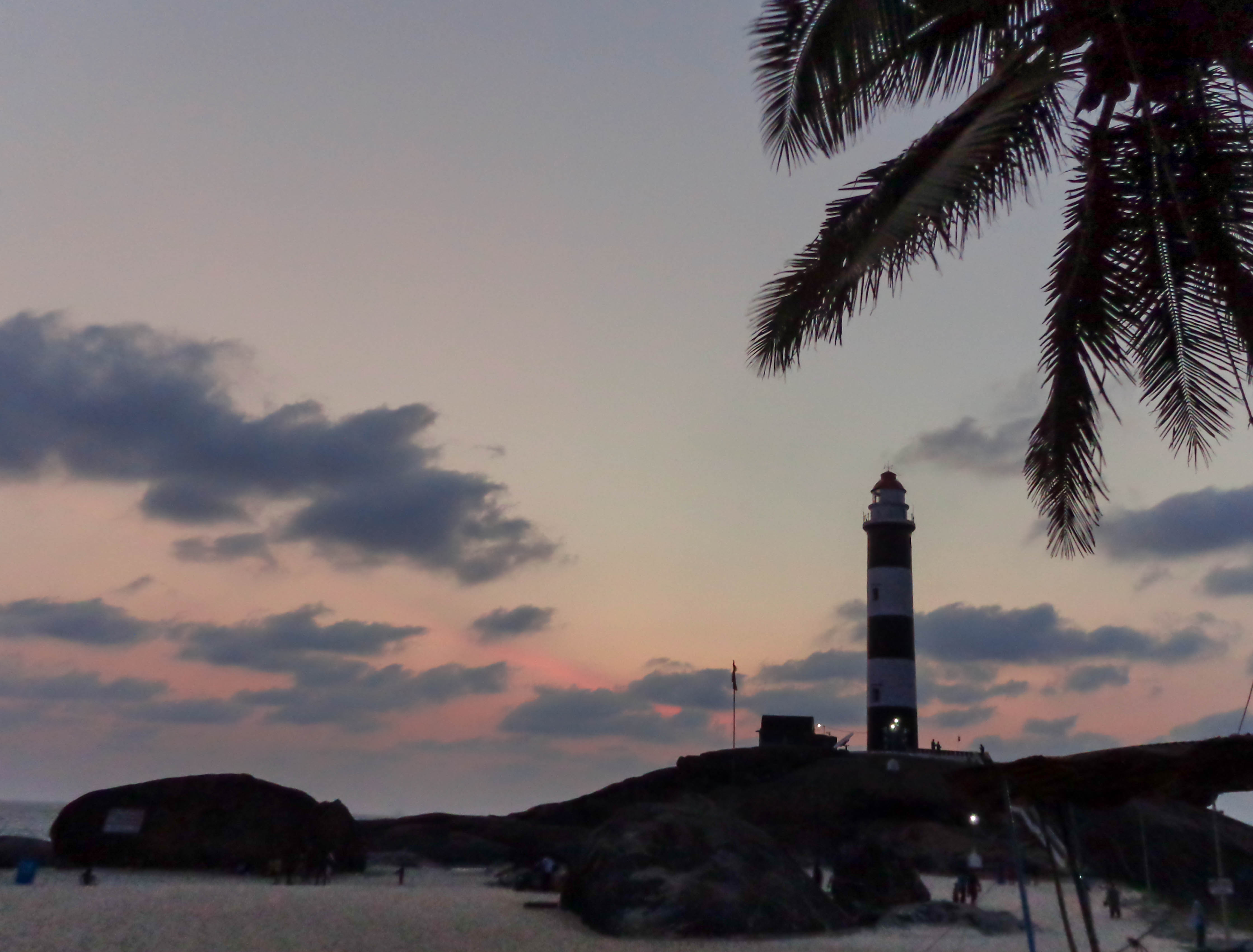 Late evening shot of Light house of Kapu beach